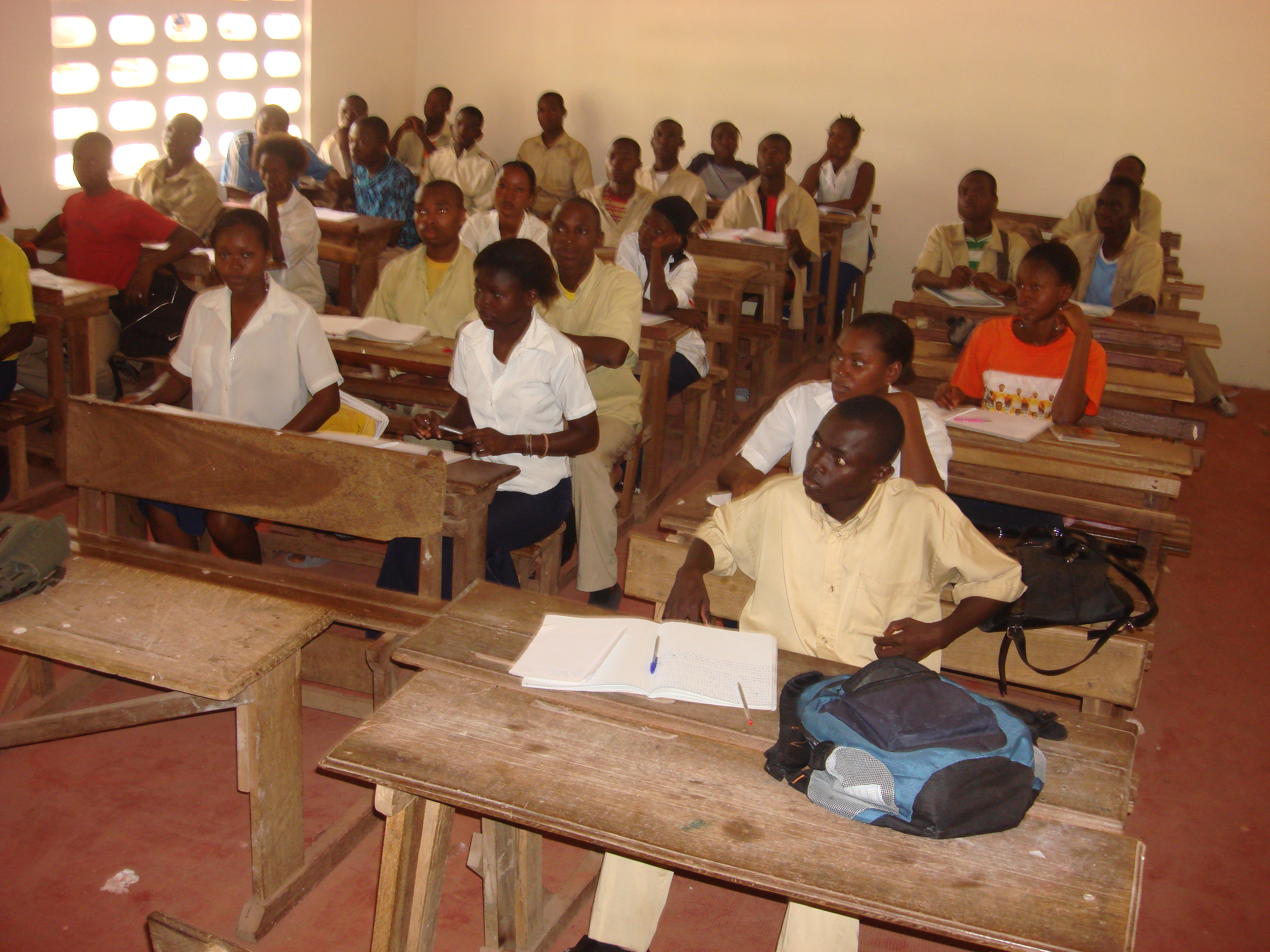 Secondary school students in the Ivory Coast